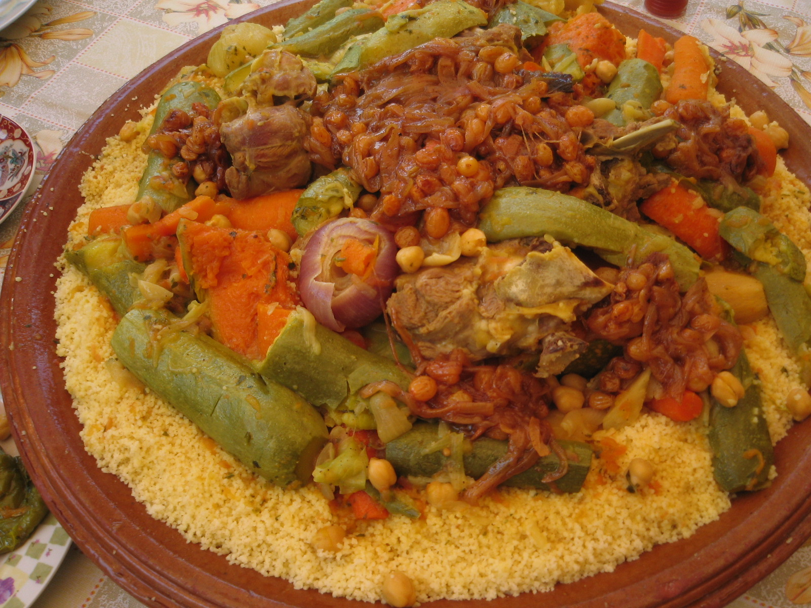 This is one of the variations of Moroccan Couscous, actually a mix of the vegetable variation and the sweet (raisin+onion topping) variation